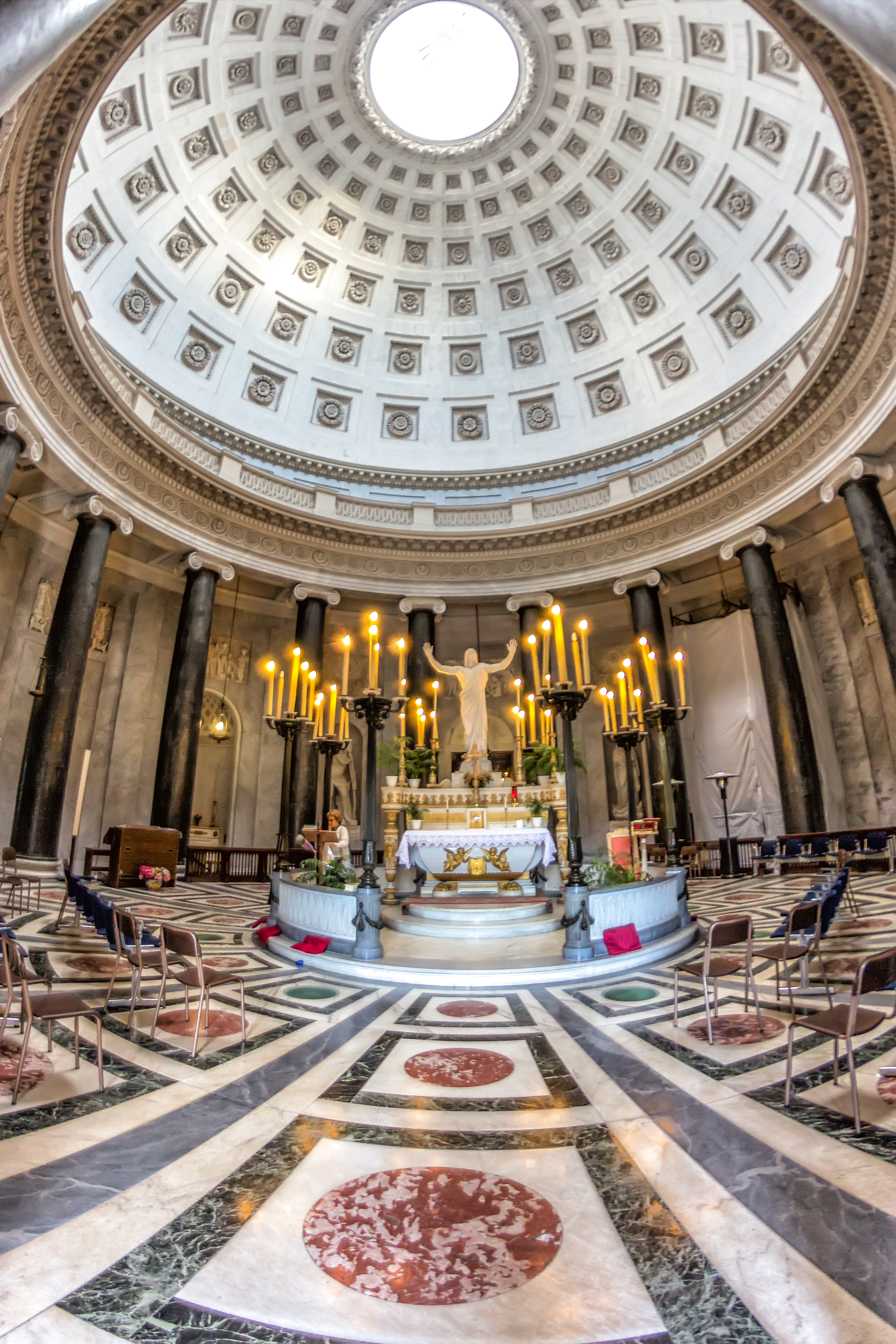 This is a photo of a monument which is part of cultural heritage of Italy.